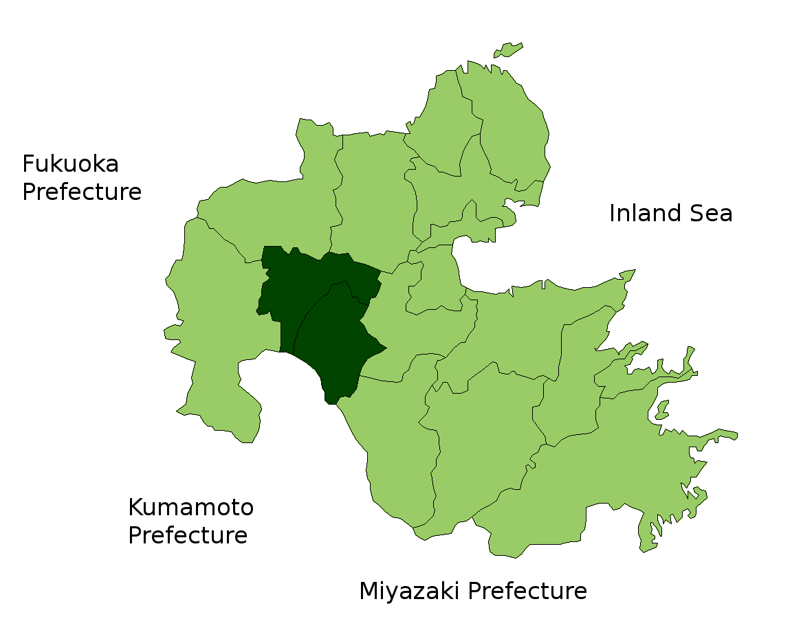 Location Map of Kusu District in Oita Prefecture, Japan